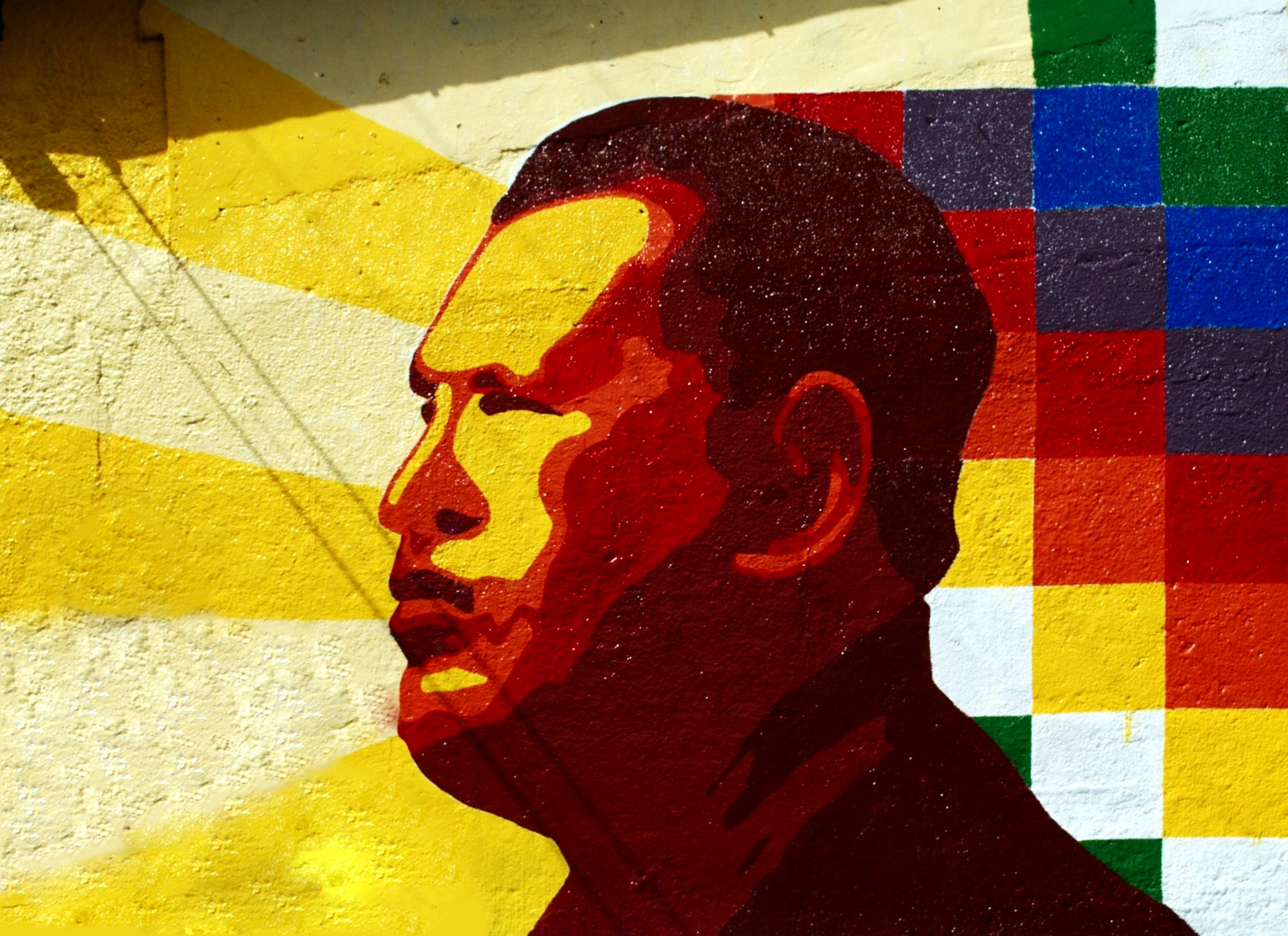 A mural of Hugo Chávez in Mérida city.